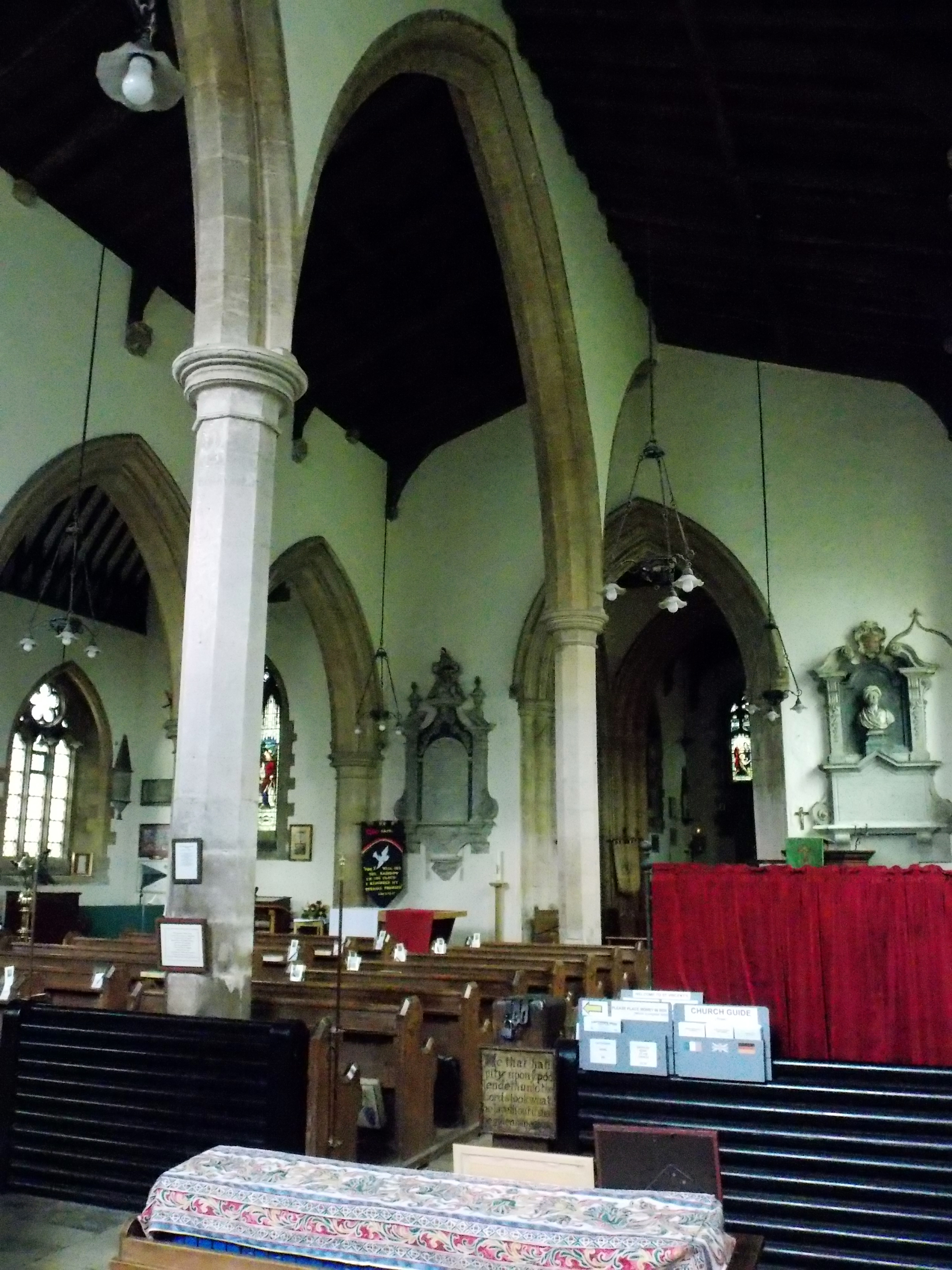 Interior of the nave of Caythorpe St Vincent parish church, Lincolnshire, seen from southwest from the south aisle